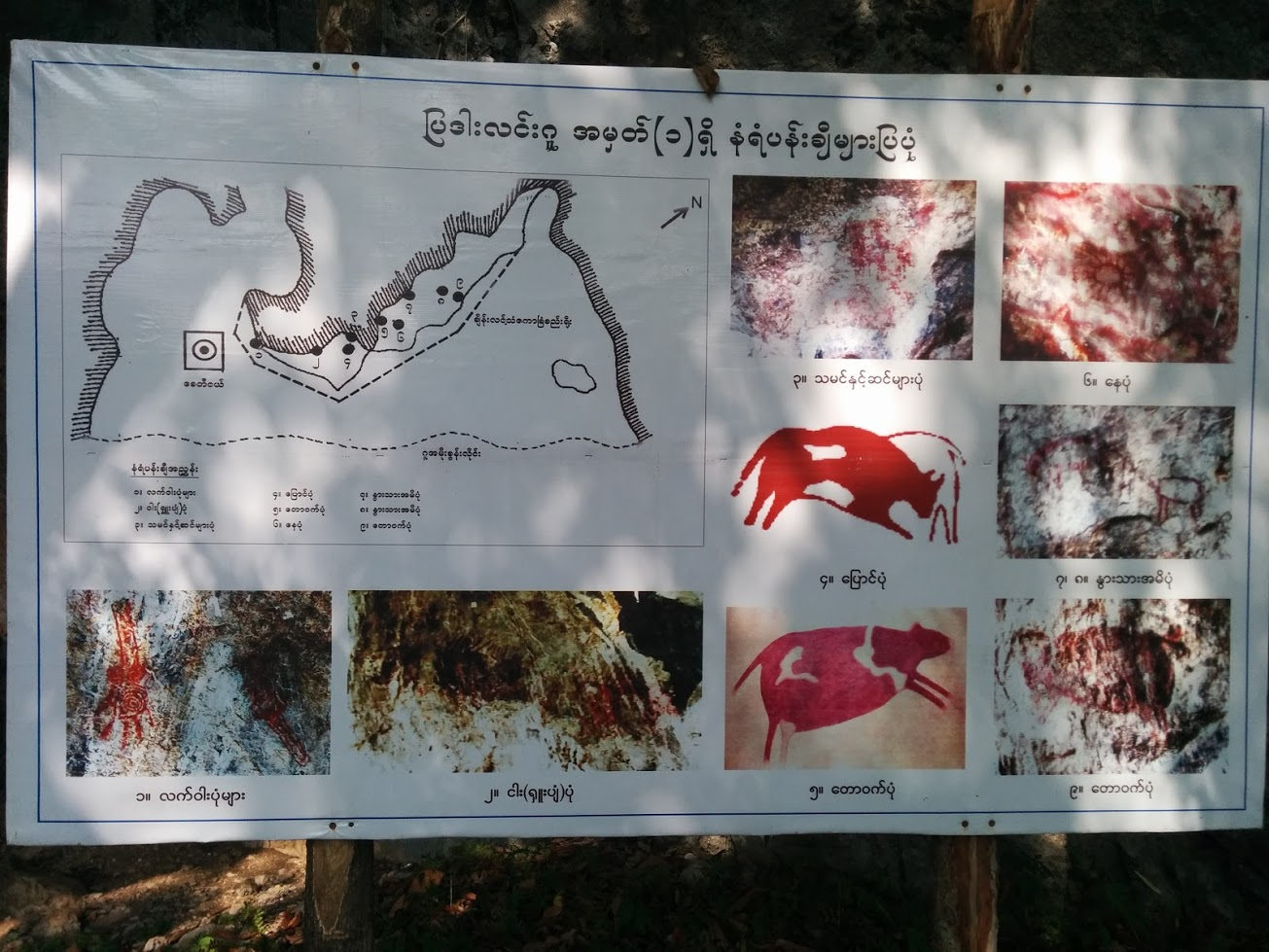 Padah-Lin Cave 1 sign showing the layout of the cave and some of the rock art